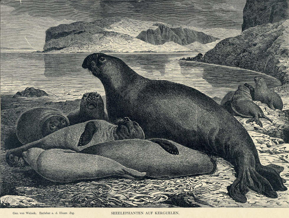 Drawing by Ladislaus Weinek: Elephant seals on Kerguelen Island in the Indian Ocean.